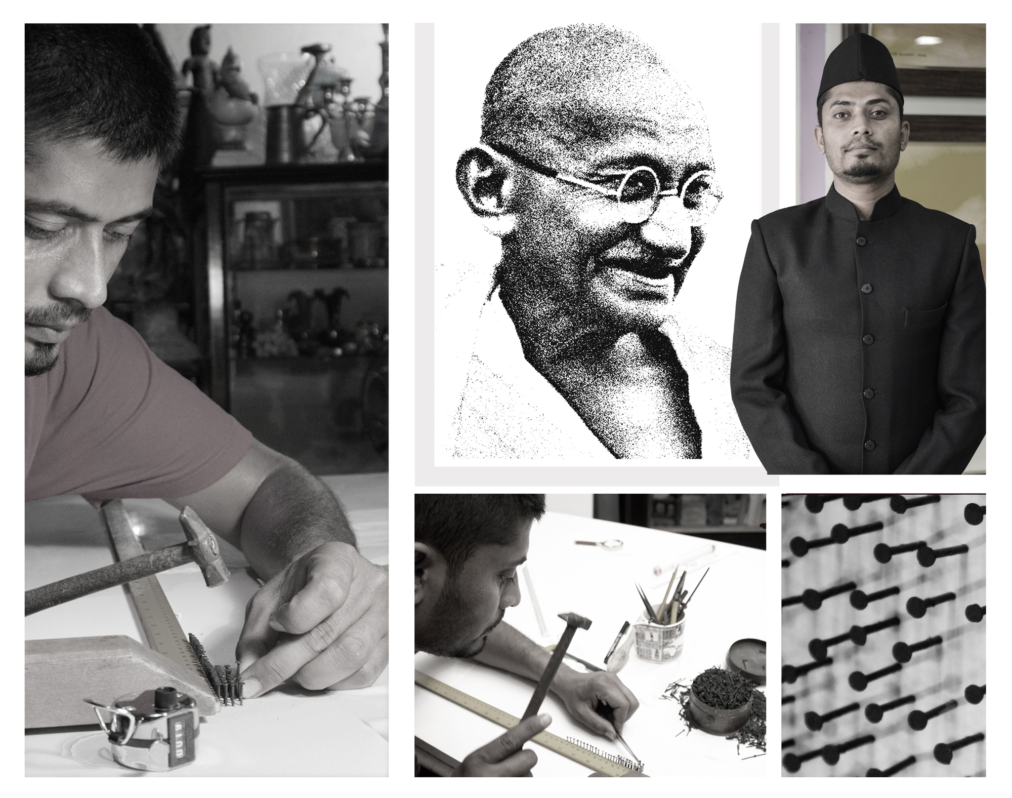 This is portrait of Mahatma Gandhi was made by Wajid Khan.